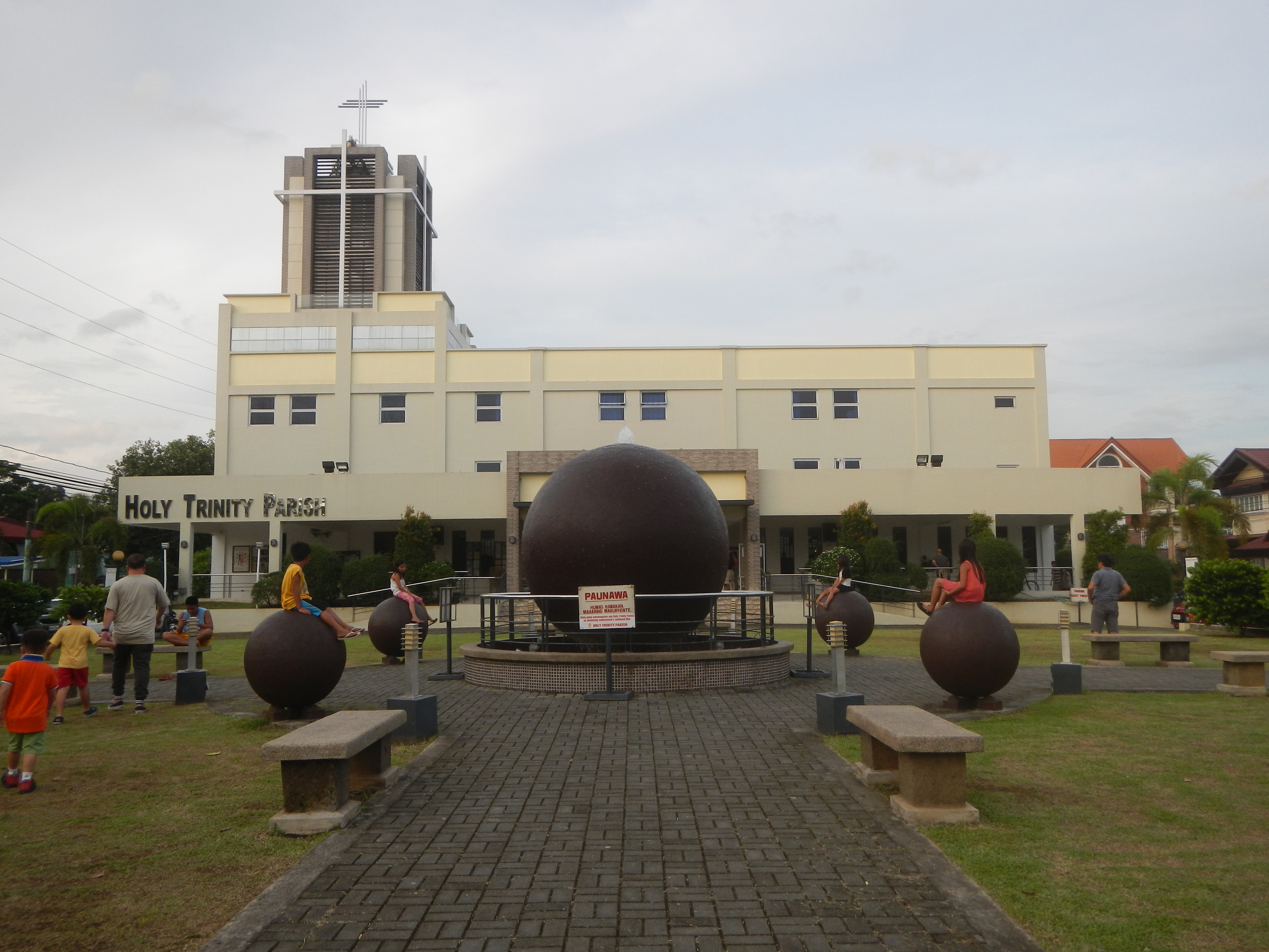 Barangay Santo Domingo 14°35'31"N 121°6'58"E Cainta, Rizal along Felix Avenue also known as Imelda Avenue; Holy Trinity Parish Church (Village East Executive Homes, Santo Domingo, Cainta, Rizal) Village East Avenue Roman Catholic Diocese of Antipolo Solemnly Dedicated March 24, 2012 (Note: Judge Florentino Floro, the owner, to repeat, Donor Florentino Floro of all these photos hereby donate gratuitously, freely and unconditionally all these photos to and for Wikimedia Commons, exclusively, for public use of the public domain, and again without any condition whatsoever).